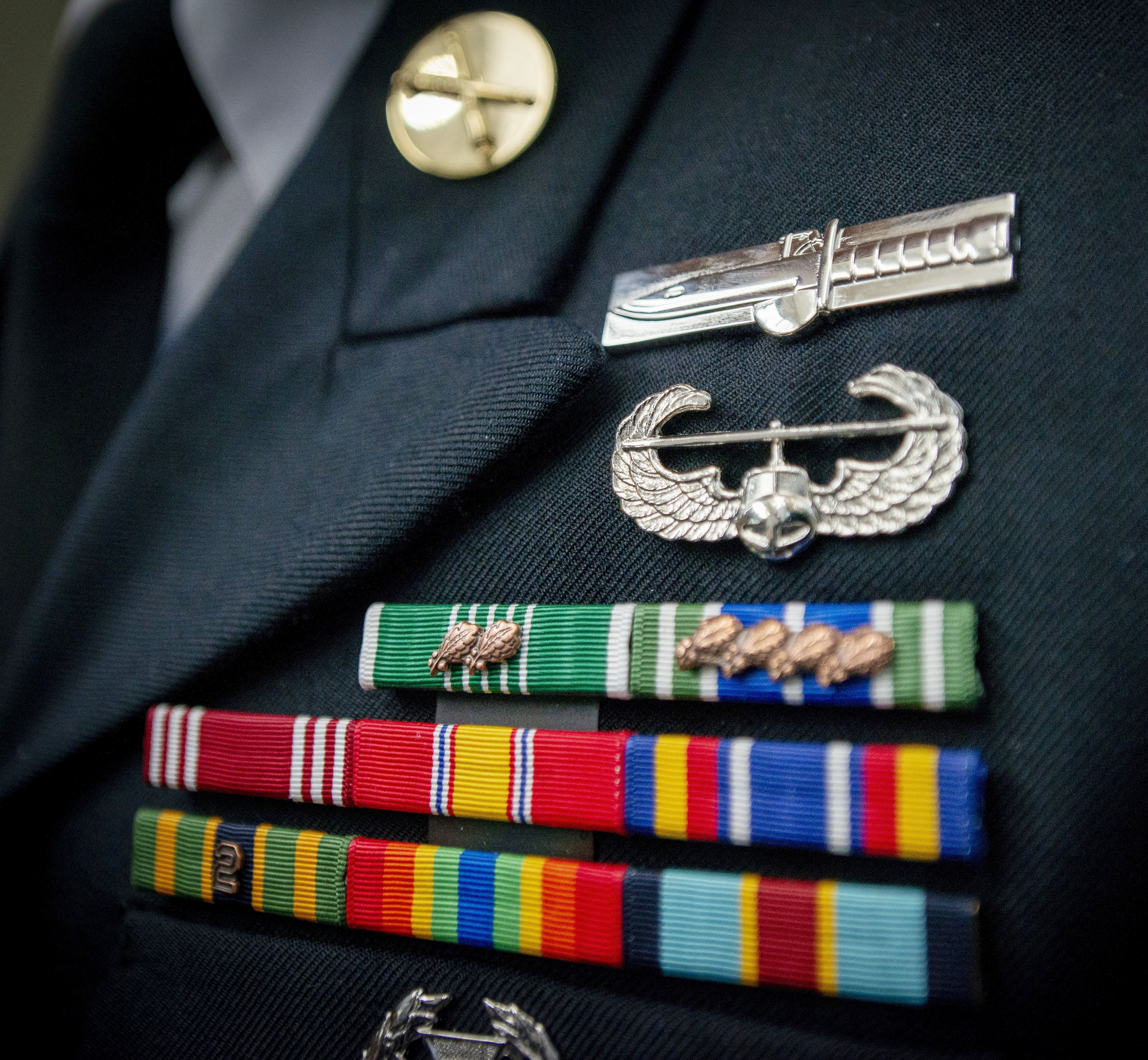 U.S. Army Expert Soldier Badge and Air Assault Badge on the U.S. Army's Class A Service Uniform